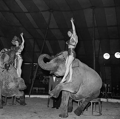 The elephants of Robert Bros Circus at Welshpool, Wales.